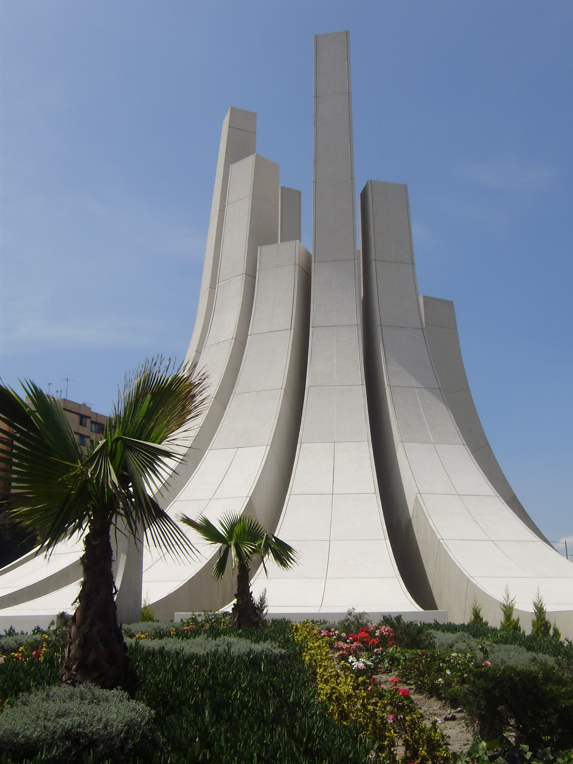 Square democracy Atizapán, State of Mexico.